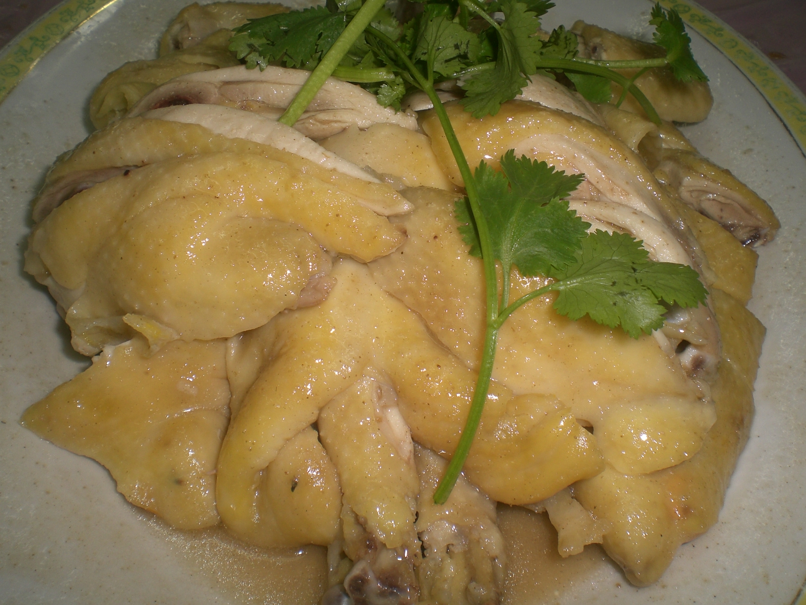 中國食品 沙薑雞 芫茜蔥 冰鮮雞